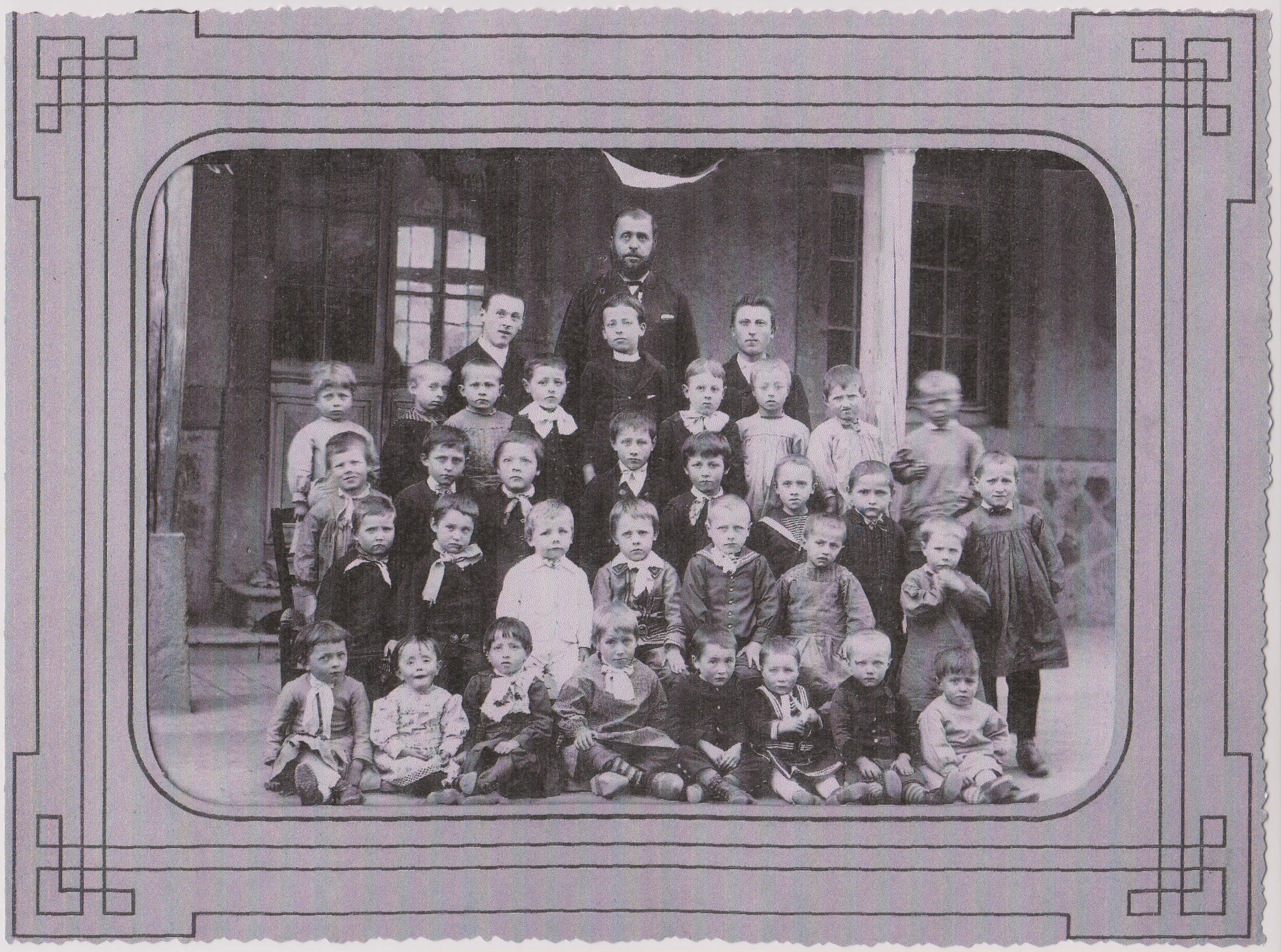 Elèves de l'école primaire de La Tour-d'Auvergne (circa 1880) Elementary School's Pupils in La Tour-d'Auvergne